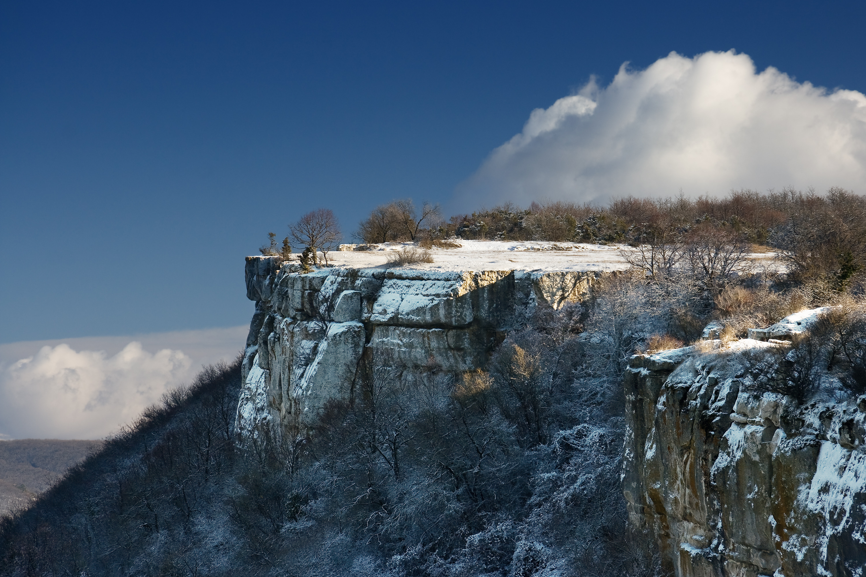 Çufut Qale, Crimea